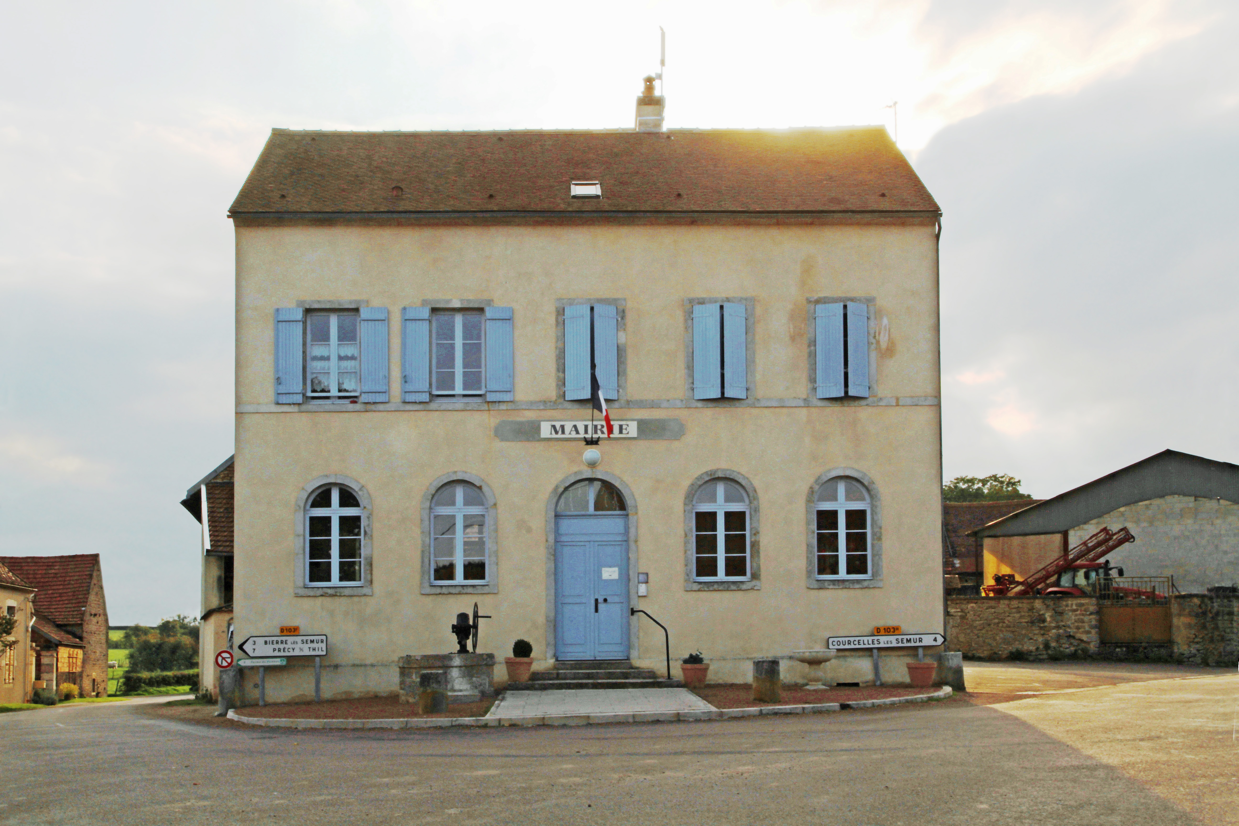 Flée Town hall